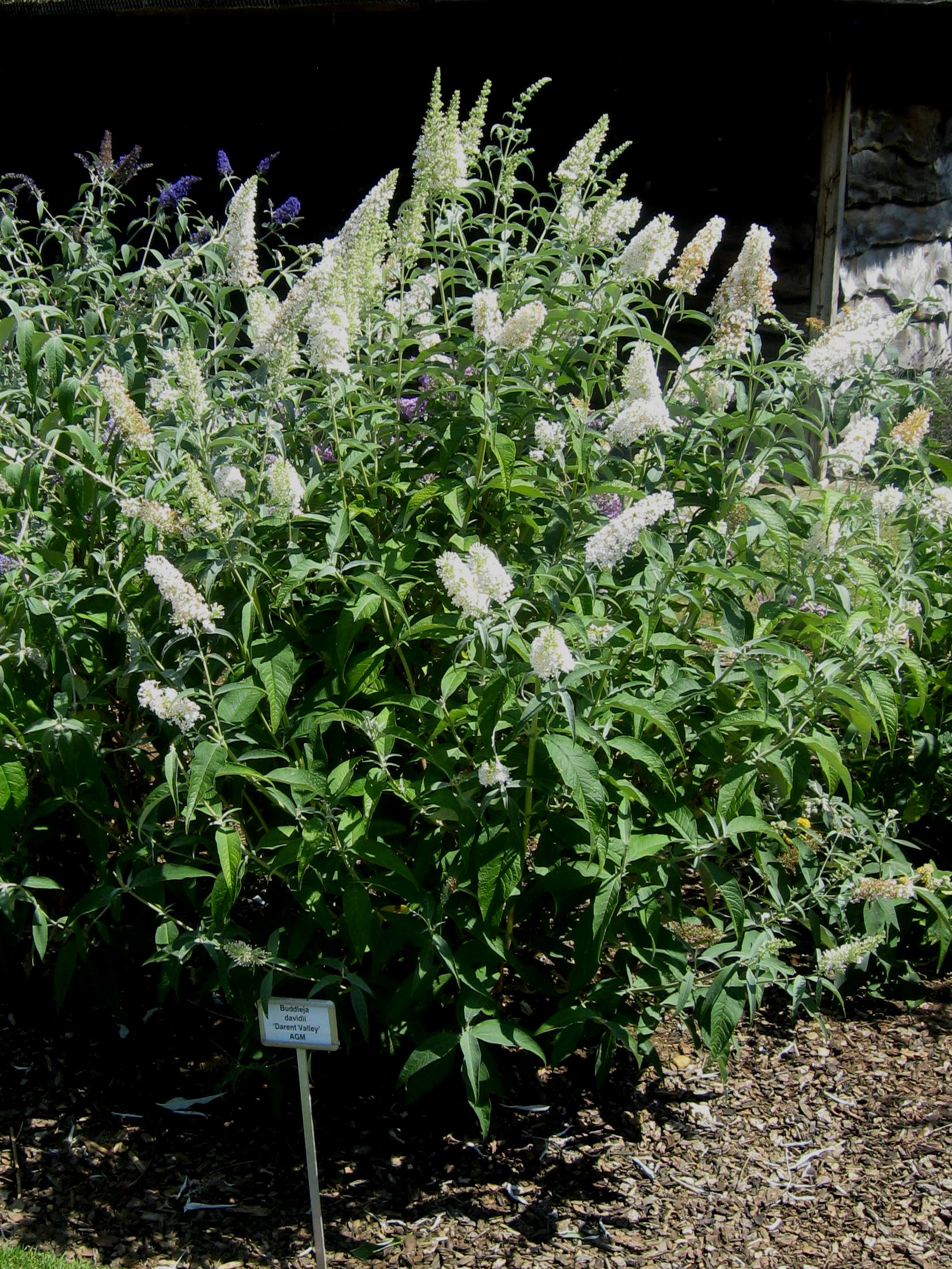 Photo of Buddleja davidii 'Darent Valley', plant, Longstock Park, UK